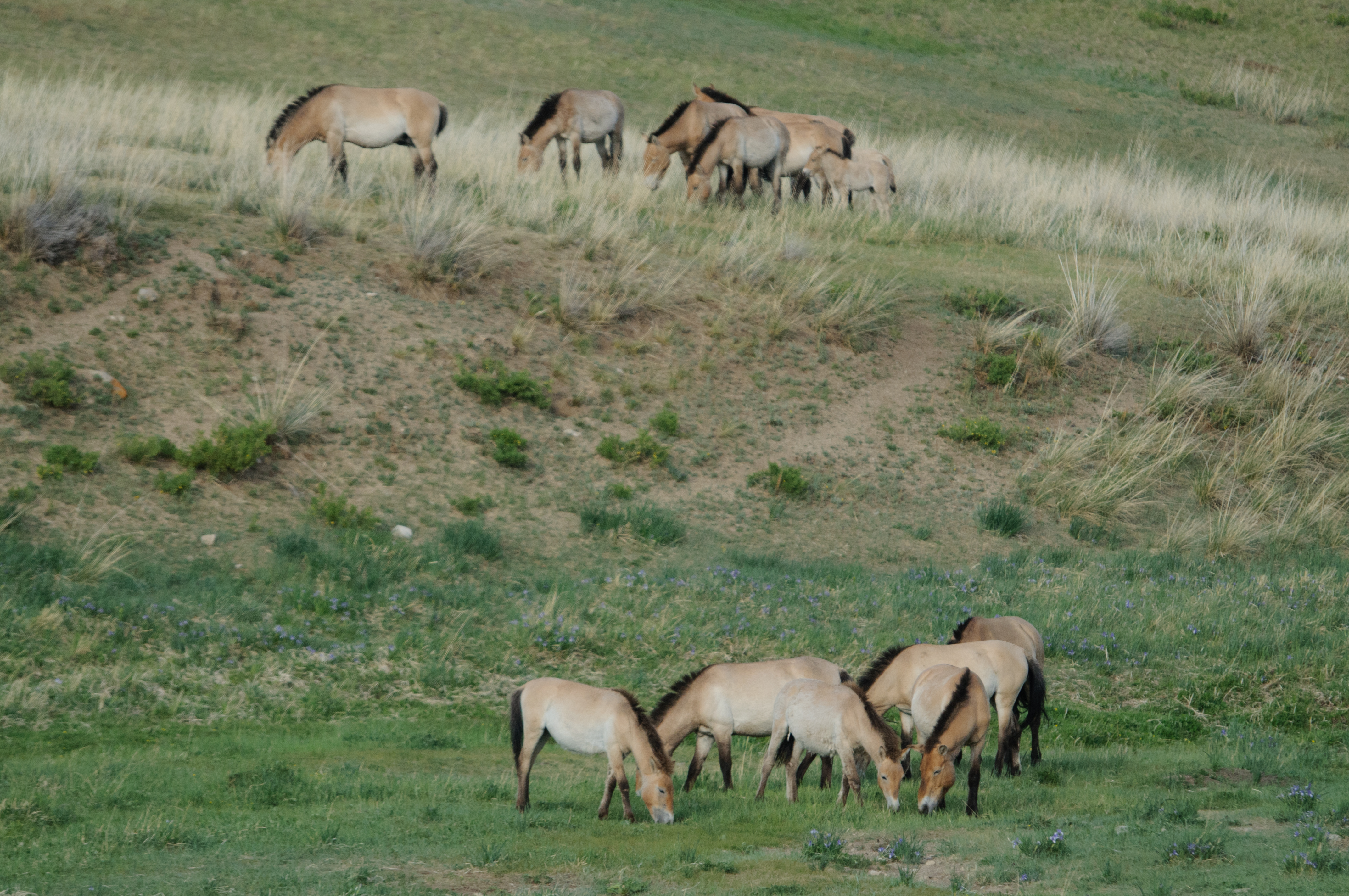 Return of the wild horses 2011